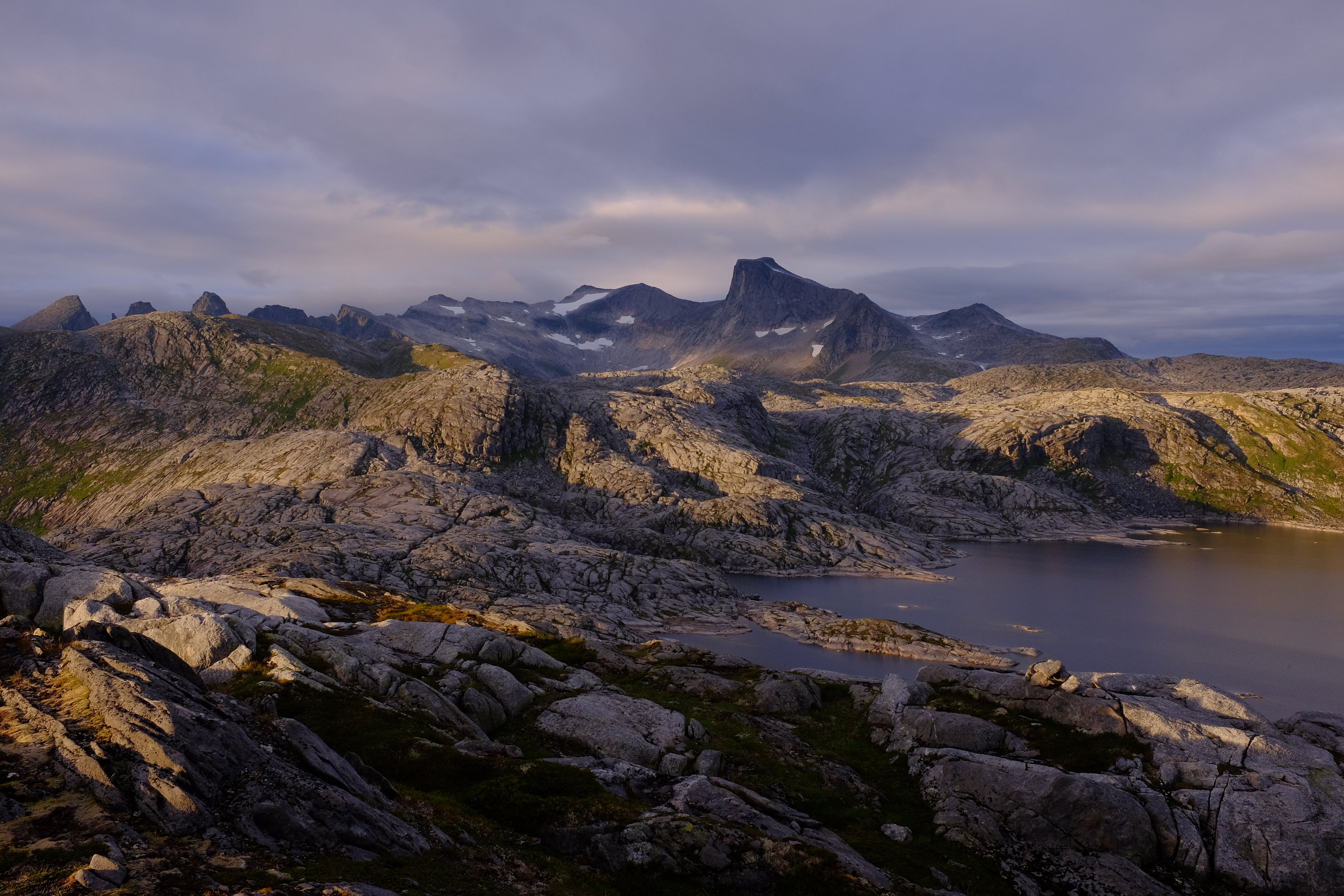 View from Sokumfjellet towards Memaurtinden summit, Gildeskål, Nordland, Norway. Overcast, but sun rays coming down between the clouds provide beautiful lighting of the mountains.